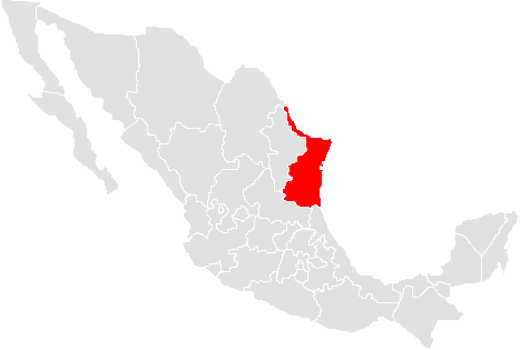 A map of the Mexican state of tamaulipas made by me